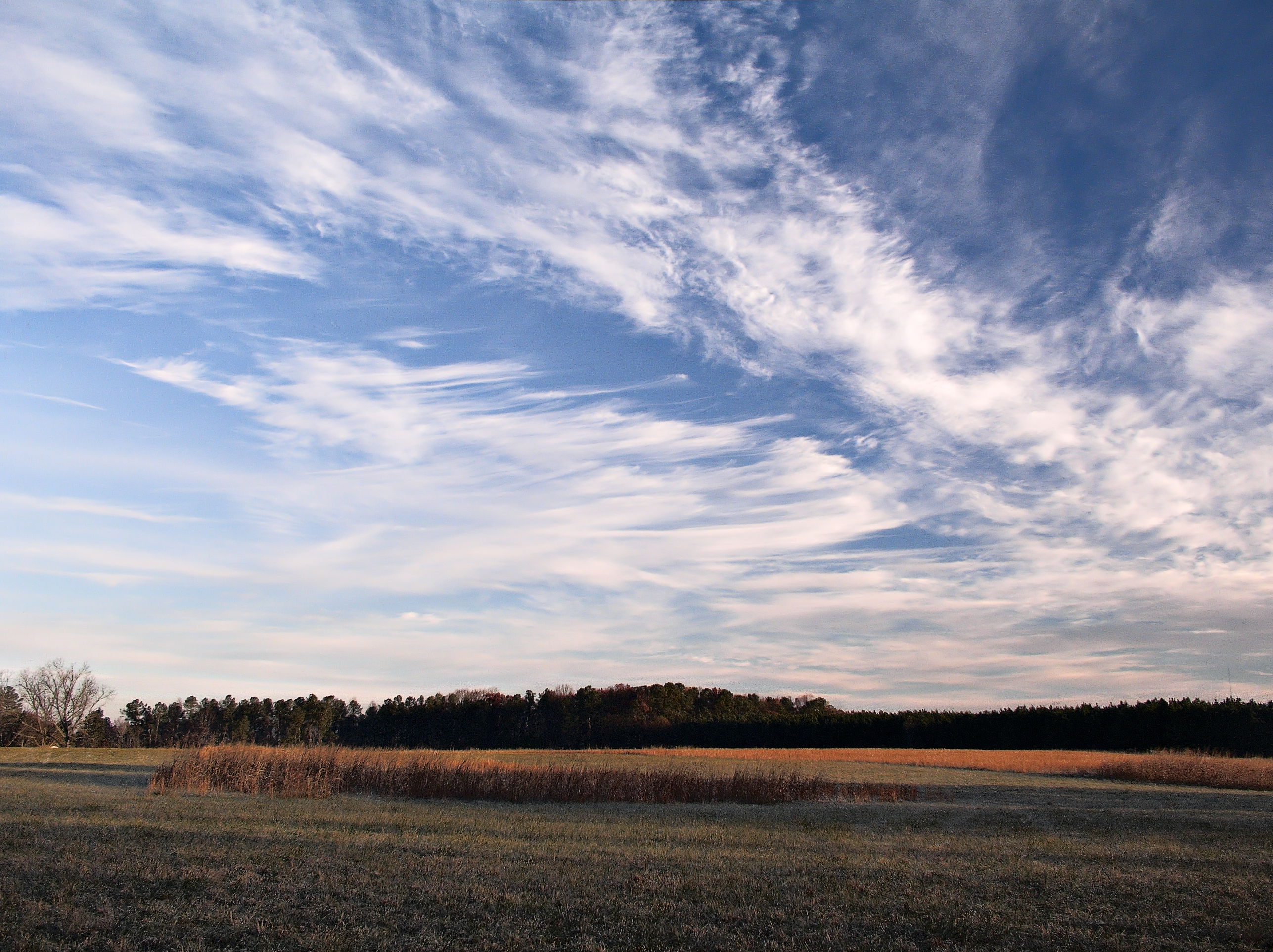 Cirrus clouds on a very cold day.